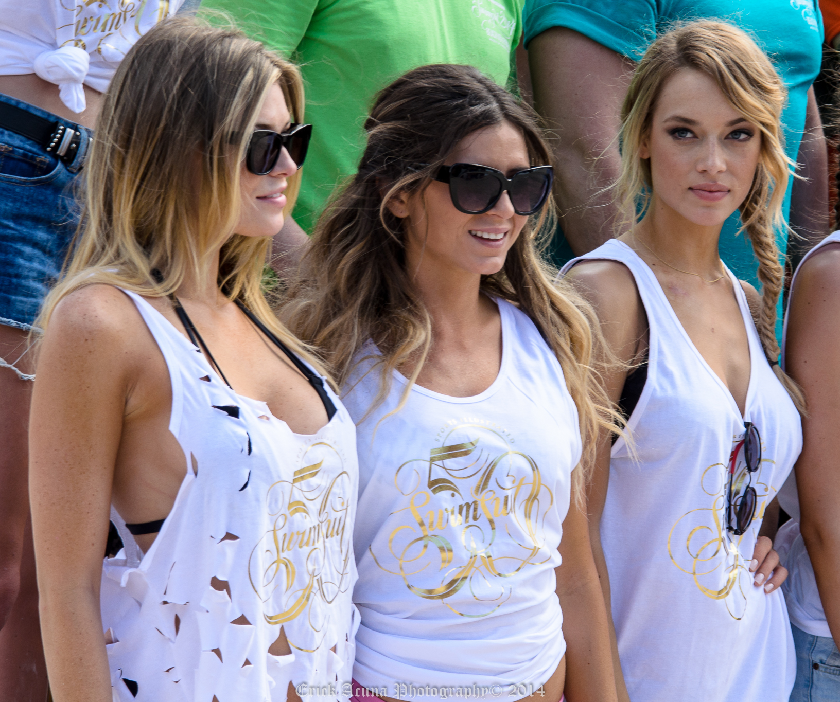 Samantha Hoopes, Anastasia Ashley, Hannah Ferguson in 2014